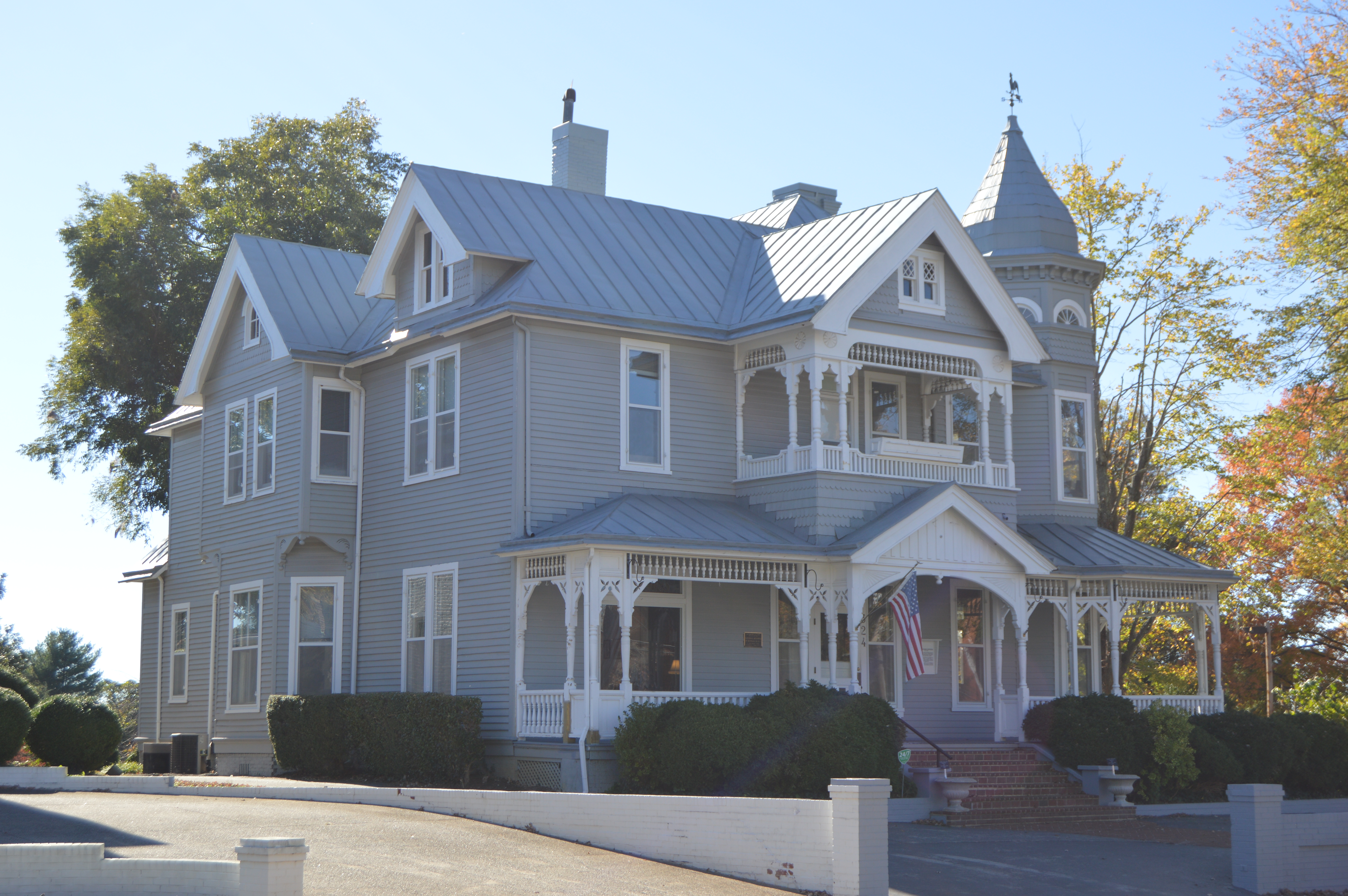 Front and eastern side of the John Waddey Carter House, located at 324 E. Church Street in Martinsville, Virginia, United States. Built in 1896, it is listed on the National Register of Historic Places, and it is located in a Register-listed historic district, the East Church Street-Starling Avenue Historic District.